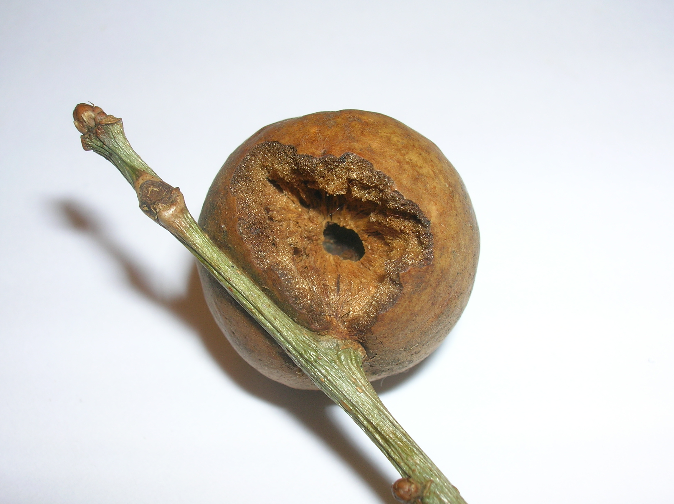 Oak Marble gall predated by a bird. Eglinton Country Park, North Ayrshire, Scotland